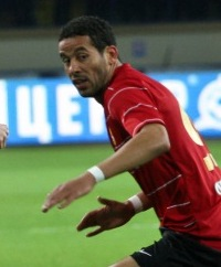 Mohamed Larbi Arouri